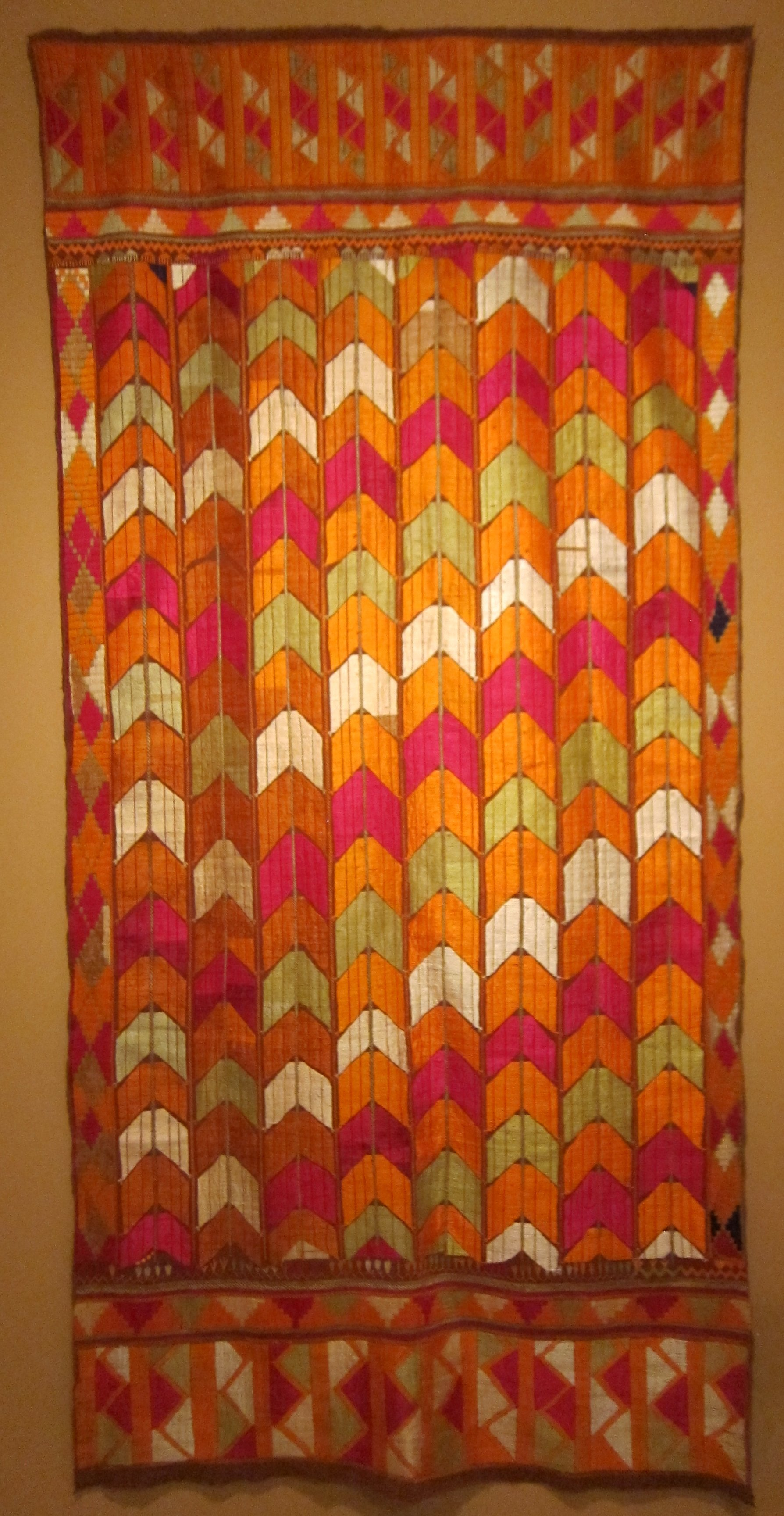 Bridal shawl (phulkari) from Punjab, India, 20th century, khadi (hand-spun, hand-woven cotton), silk, plain weave, embroidery, Honolulu Museum of Art